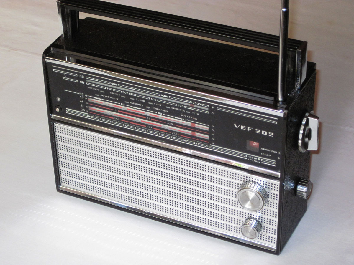 VEF-202 transistor radio, USSR, 1971